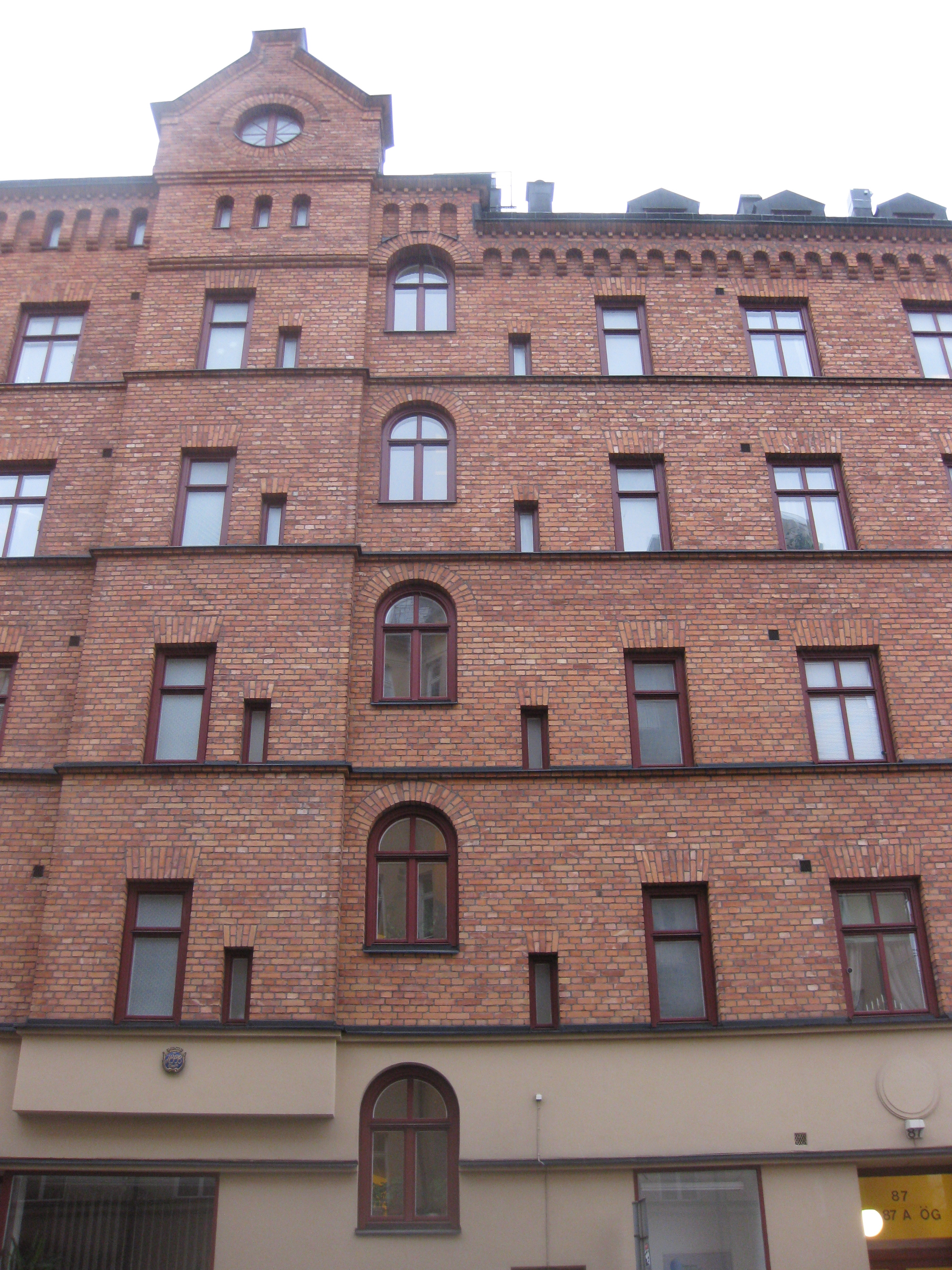 Tenement building for workers in Stockholm, Sweden. Built 1895-98 . The house was nicknamed "Tegeltraven" - The Brickstack